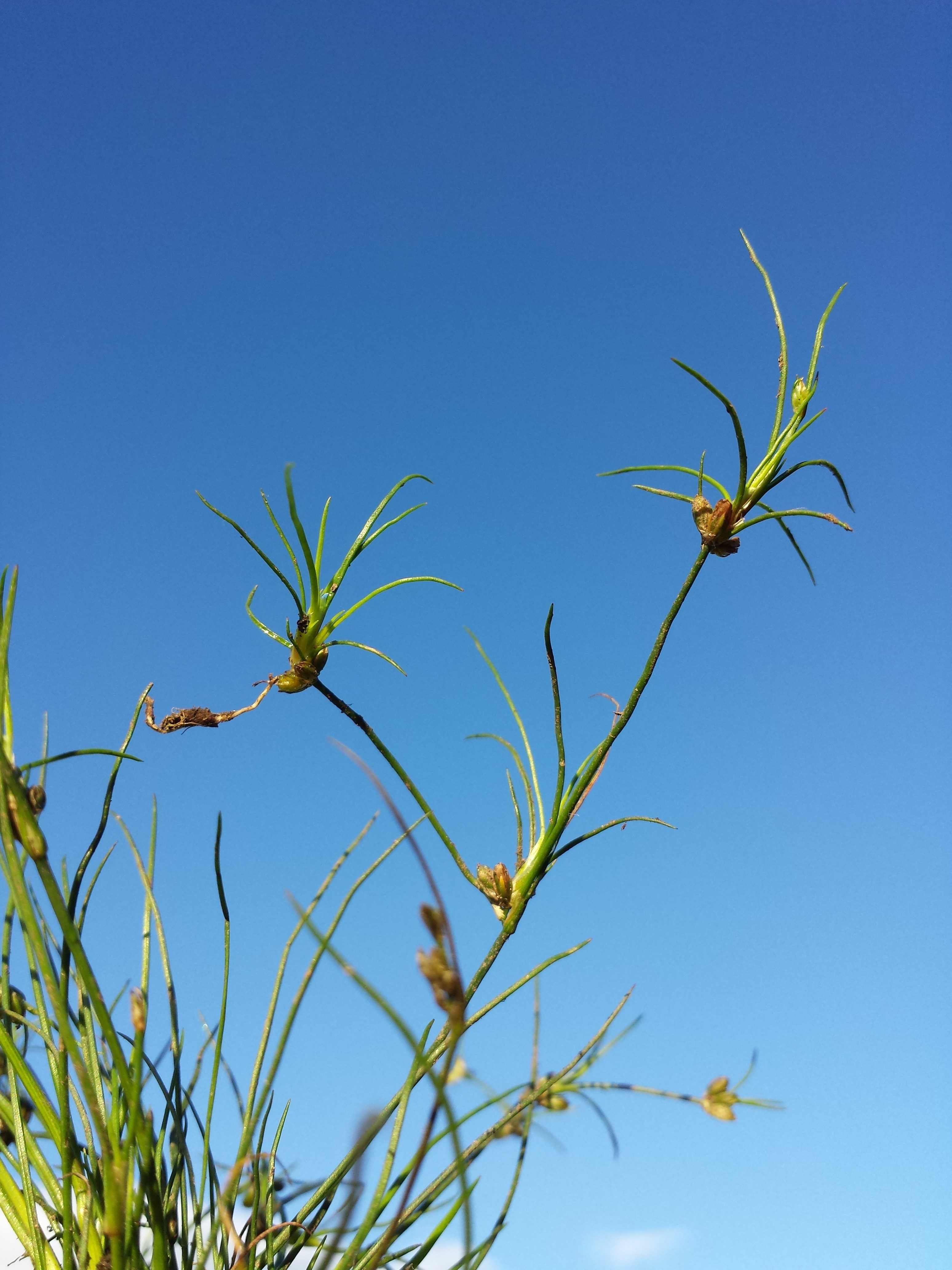 Inflorescence Taxonym: Juncus bulbosus ss Fischer et al. EfÖLS 2008 ISBN 978-3-85474-187-9 Location: pond to the south of Pyhrabruck, district Gmünd, Lower Austria - ca. 550 m a.s.l. Habitat: ground of a pond